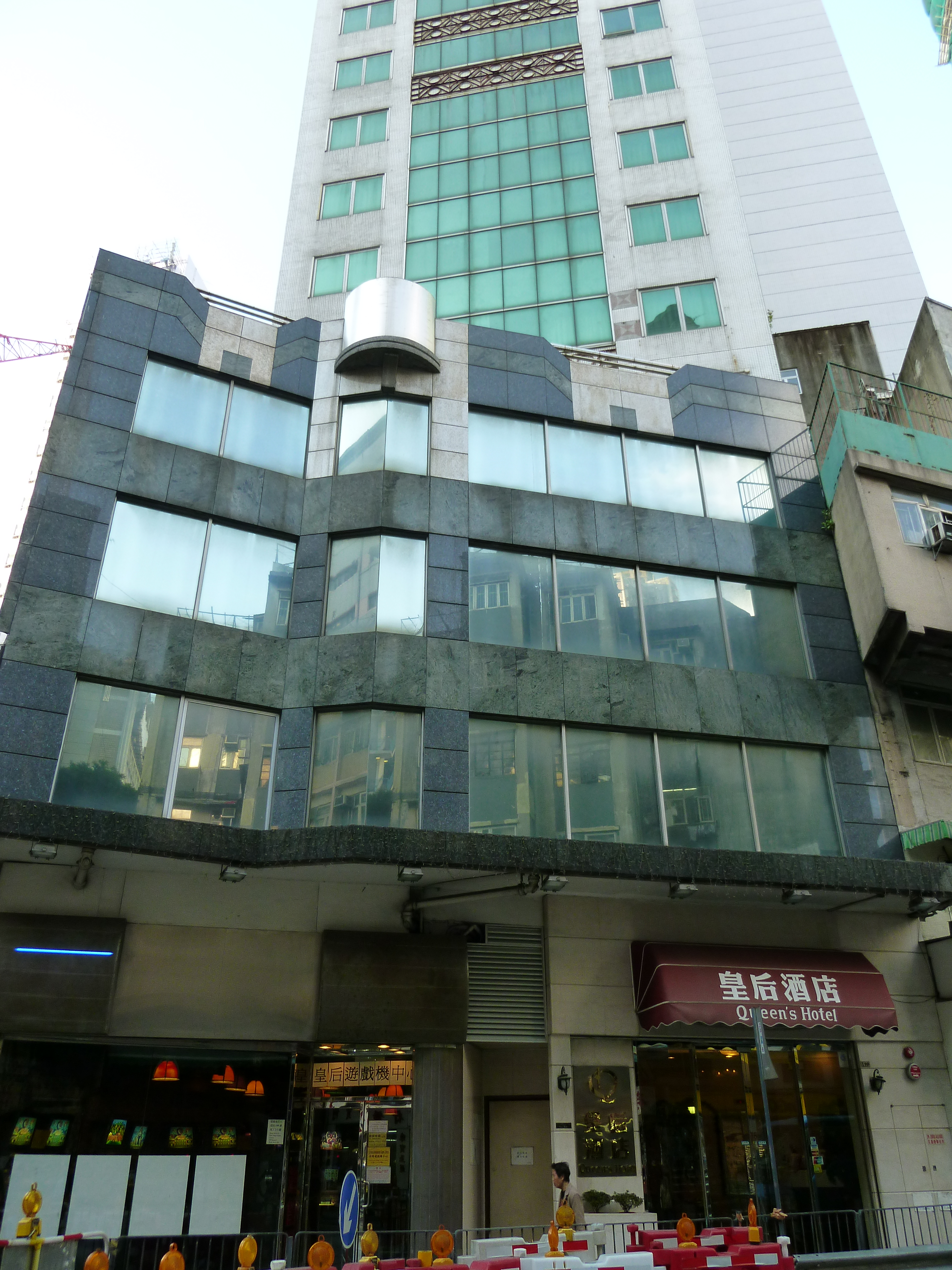 Queen's Hotel (199 Queen's Road West, Hong Kong)